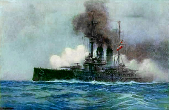 A postcard of the SMS Erzherzog Franz Ferdinand during gunnery trials